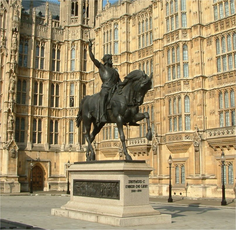 Statue of Richard I of England "Lion Heart", by Carlo Marochetti. Richard the 1st of England, as a bronze, brandishes his sword outside the Palace of Westminster.